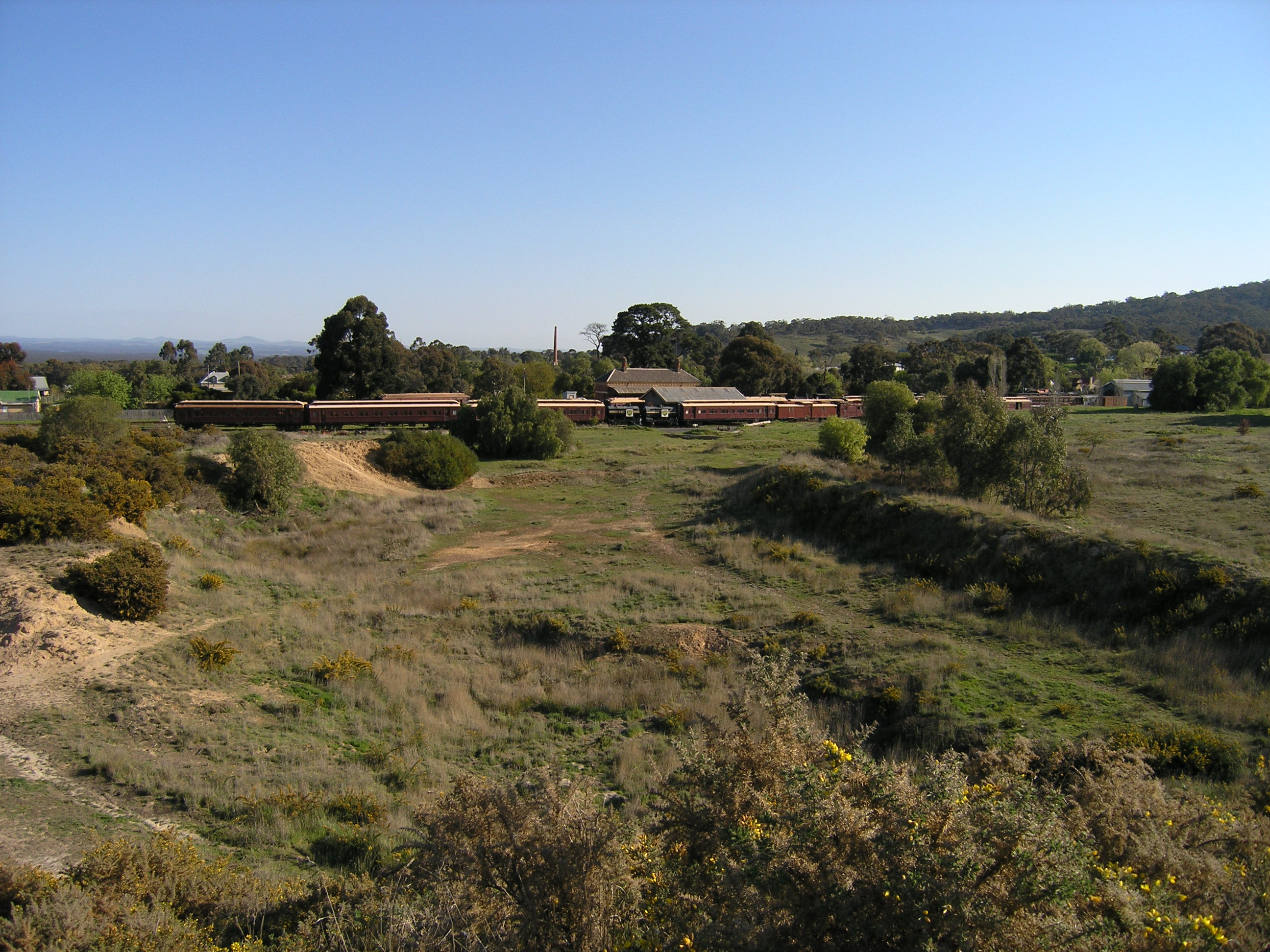 Maldon Railway Station and surrounds, including Victorian Goldfields Railway rolling stock and Beehive Tower in background. Maldon, Victoria, Australia